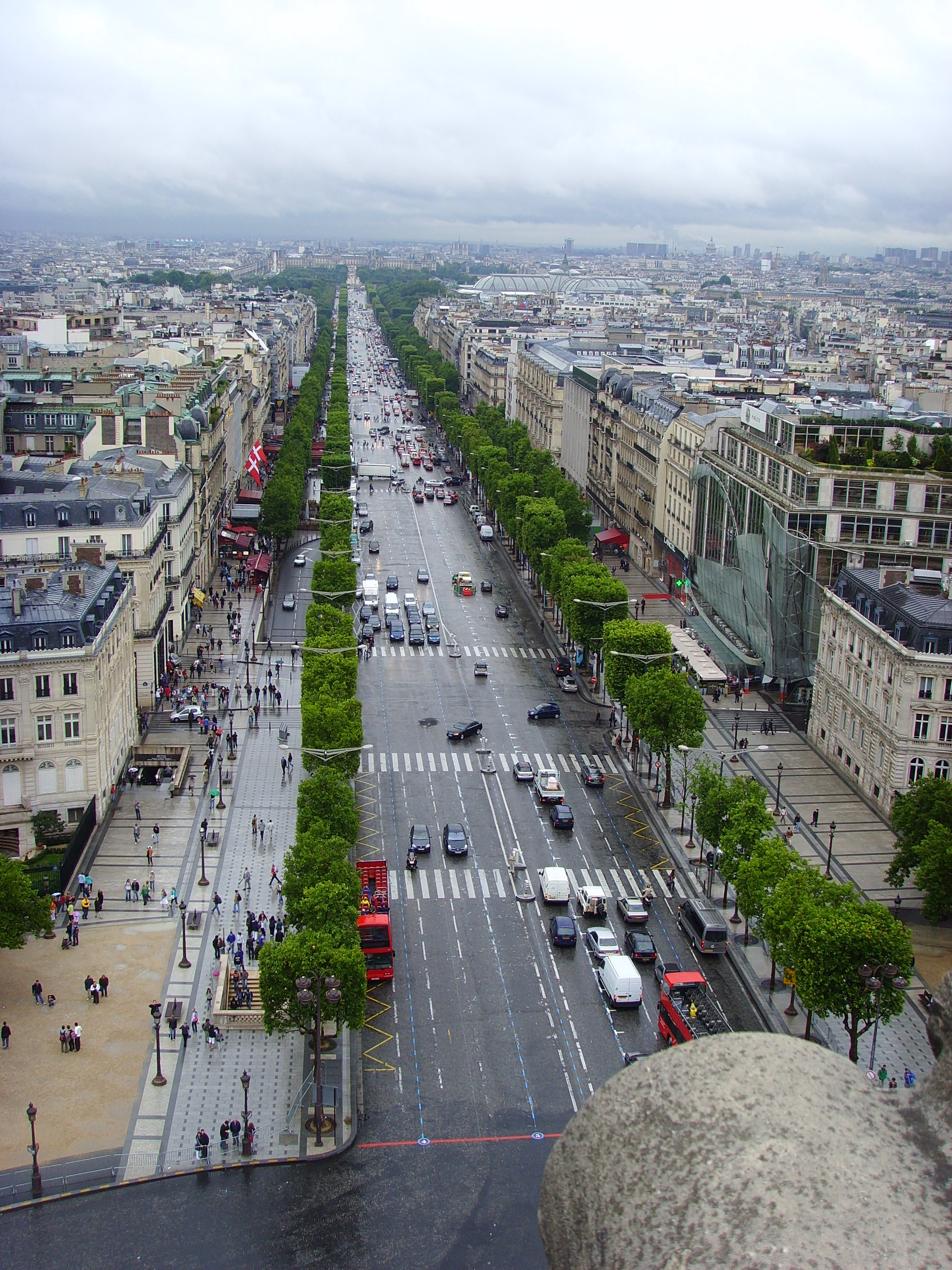 View from the Arc de Triomphe towards the Champs-Elysees